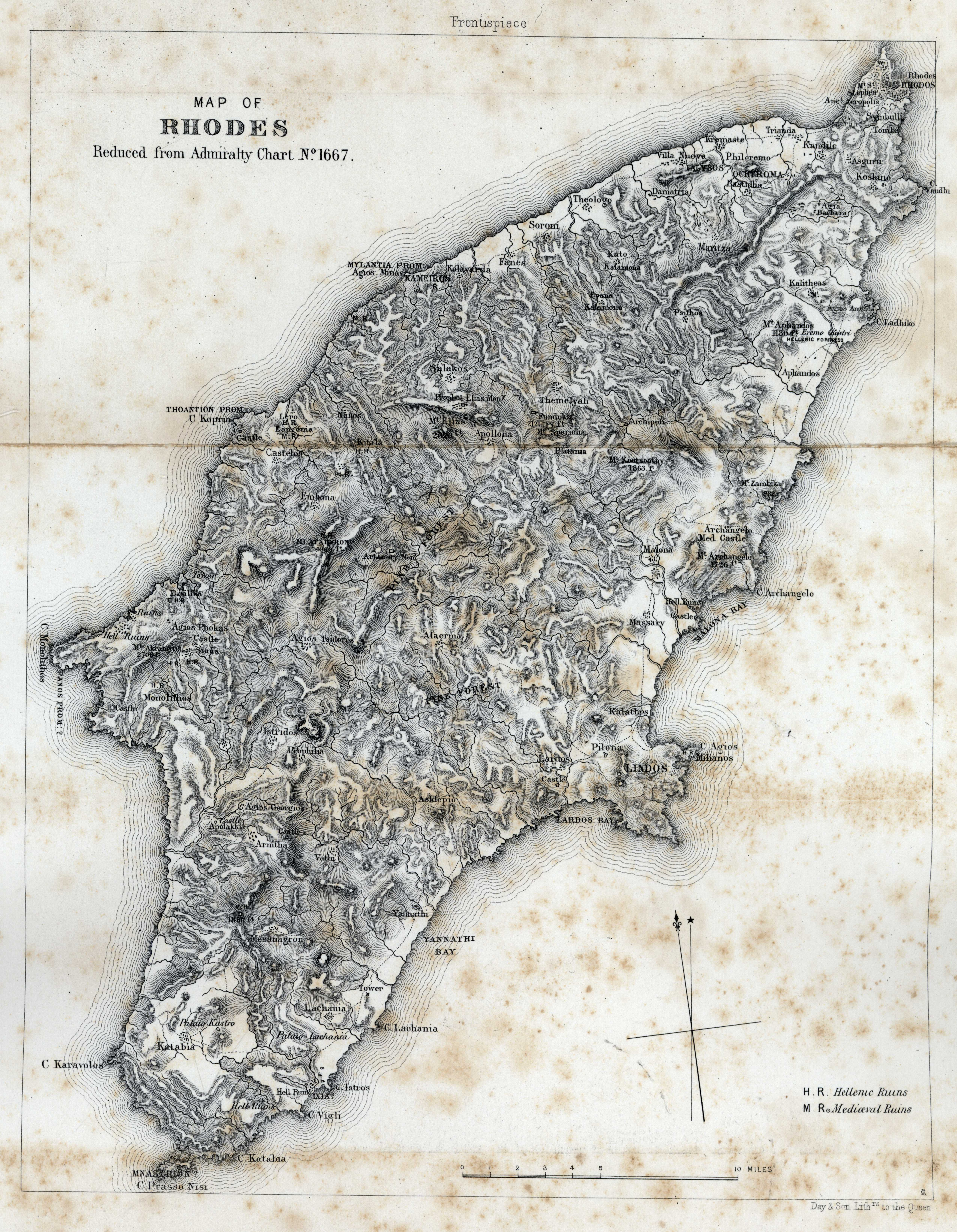 Map of Rhodes, before 1865